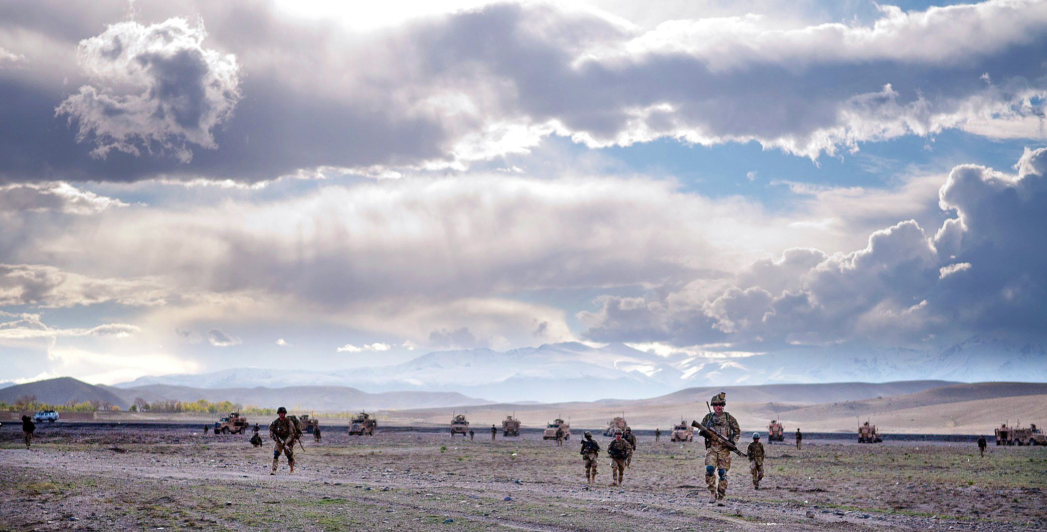 U.S. paratroopers and Afghan soldiers move into a village during a combined patrol in Afghanistan's Ghazni province, April 28, 2012.